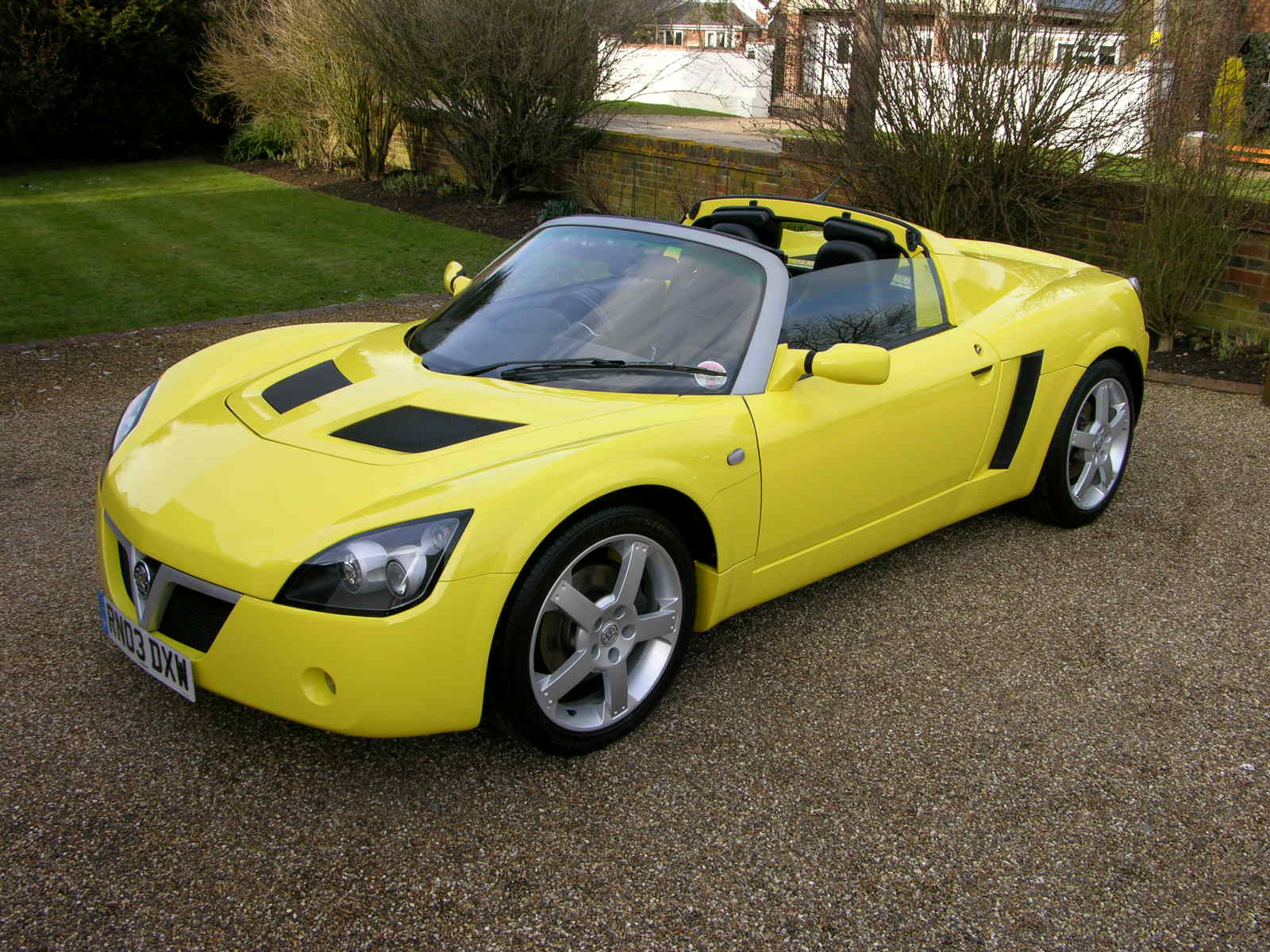 Vauxhall VX220 Lightning Yellow